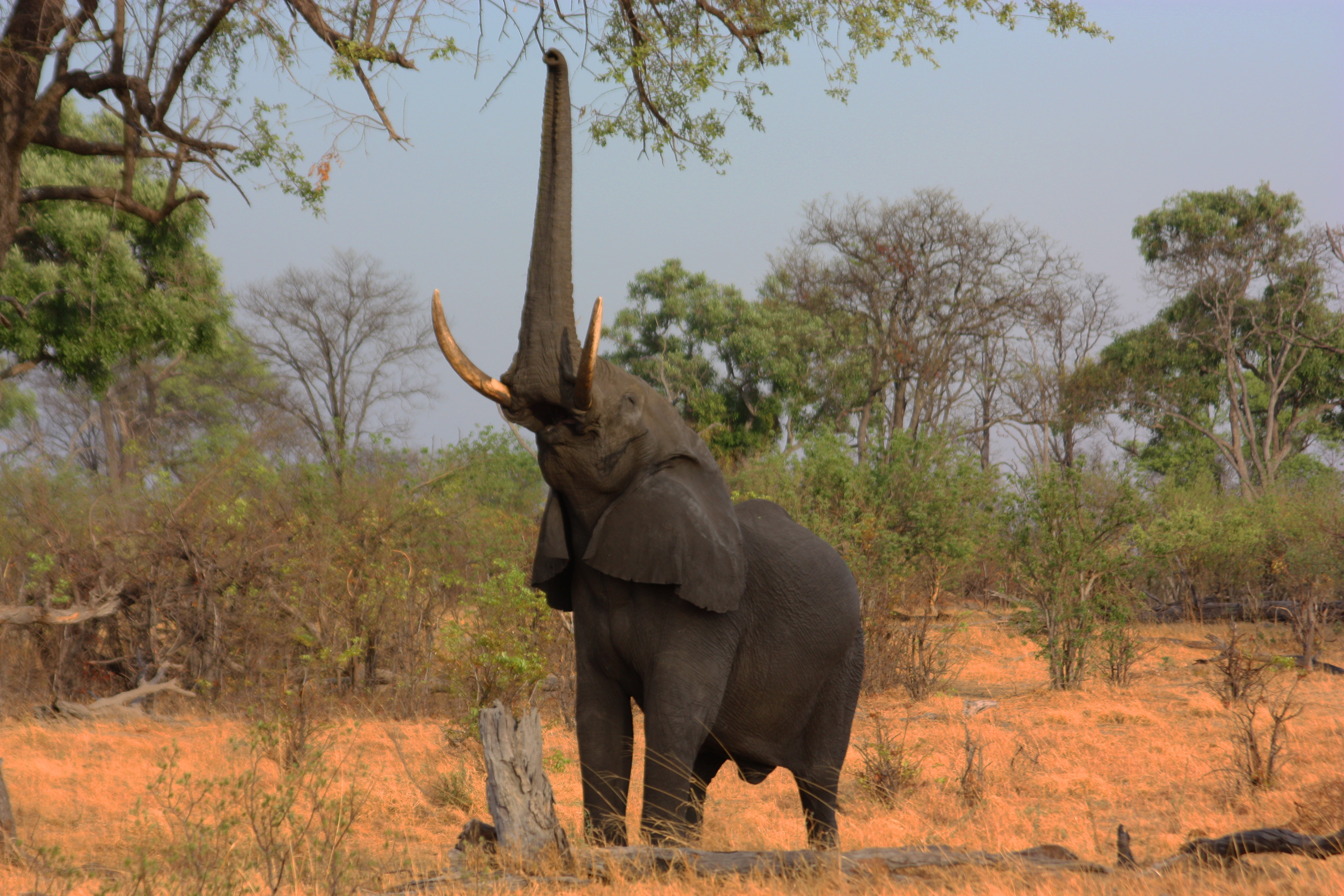 Male elephant reaching up to break off a branch for food. Okavango Delta, Botswana. 1 of 3